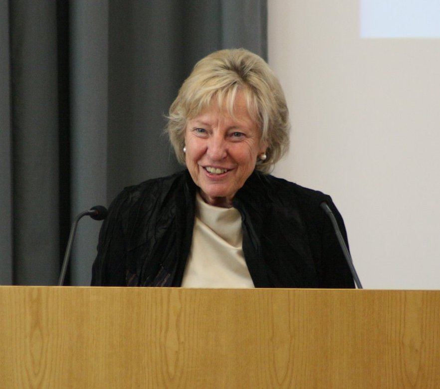 Elke Lütjen-Drecoll (b. 1944), German anatomist